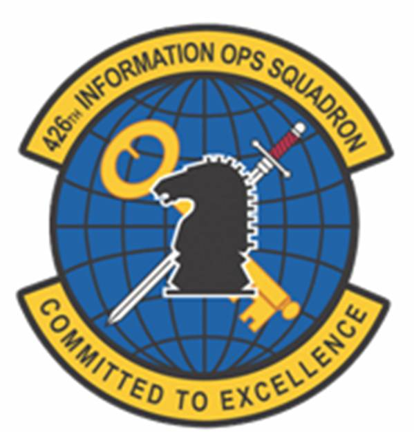 426th Info Ops Squadron